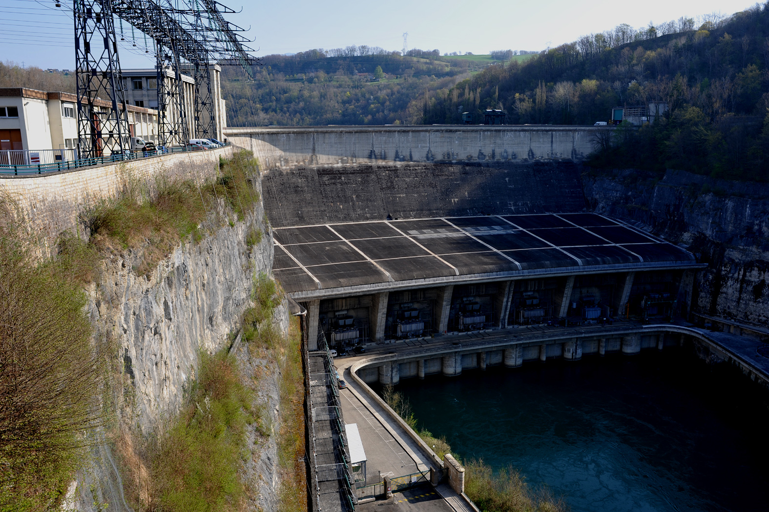 Genissiat dam at the river Rhône; Haute-Savoie and Ain, France.